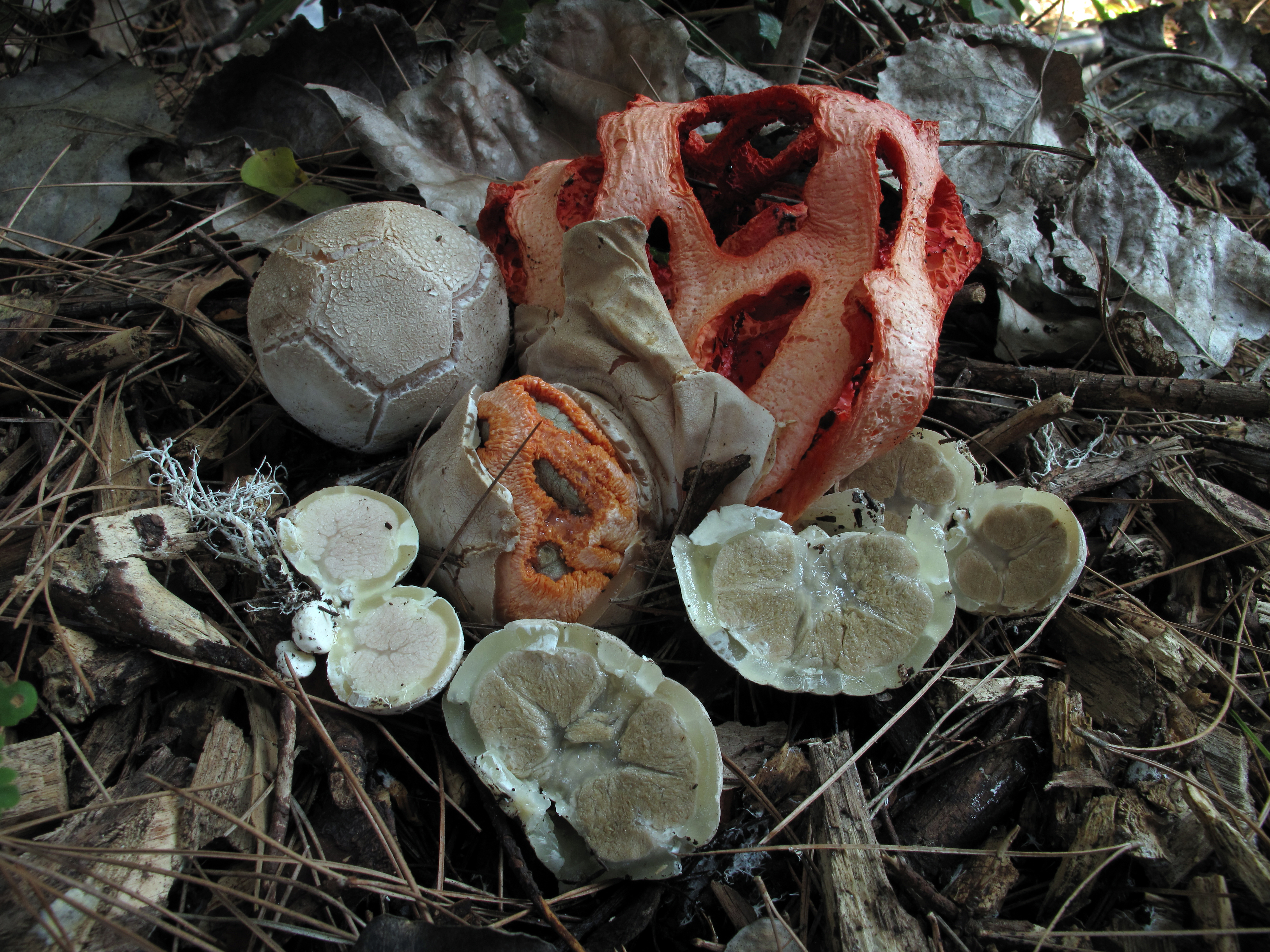 Various stages of development of the stinkhorn mushroom Clathrus ruber P.Micheli ex Pers. Specimen photographed on On the outskirts of Xanthi, Greece.